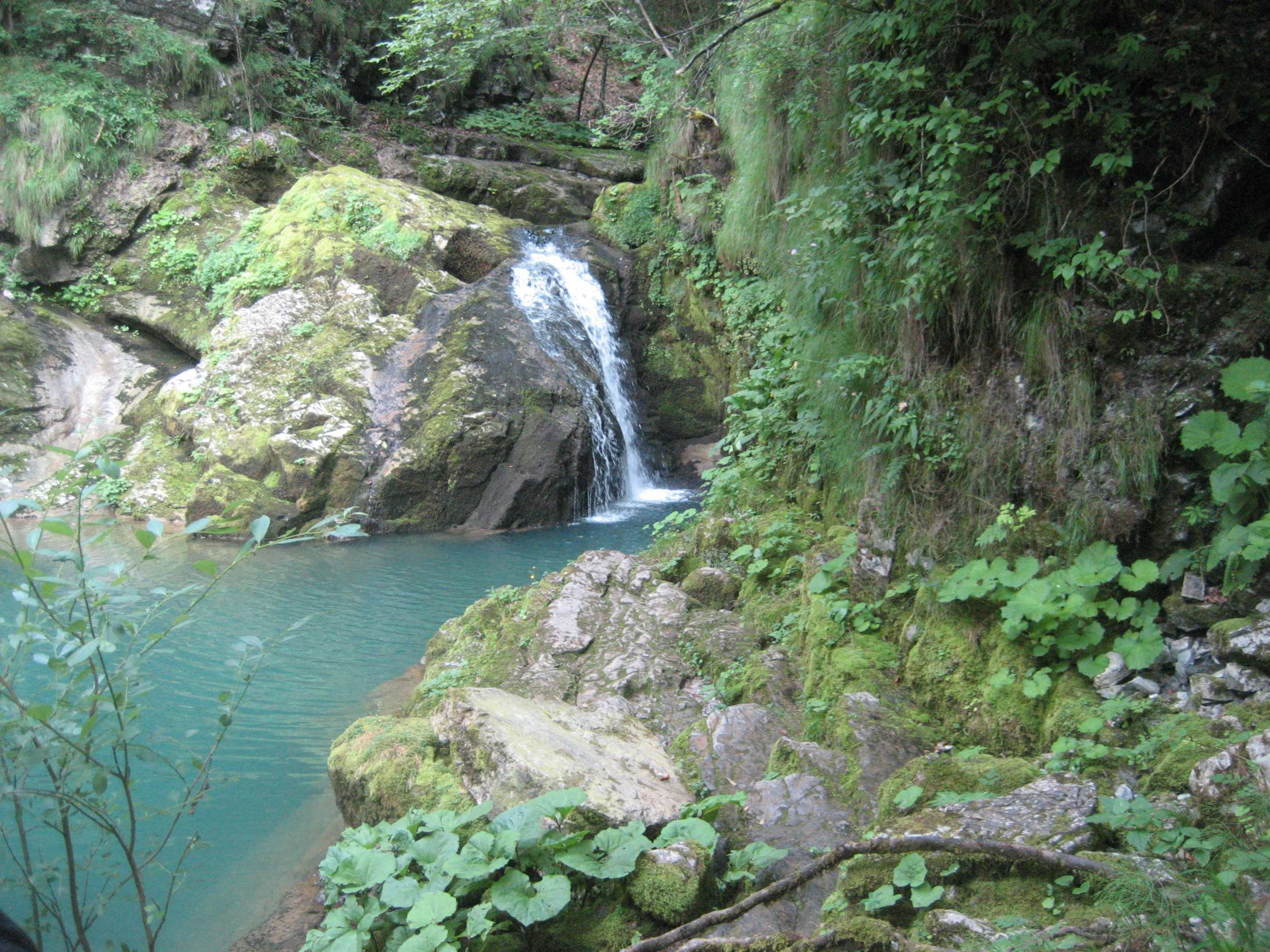 Zeleni Vir, Croatia